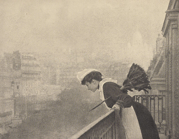 Constant Puyo: Montmartre; published in Camera Work 16, 1906